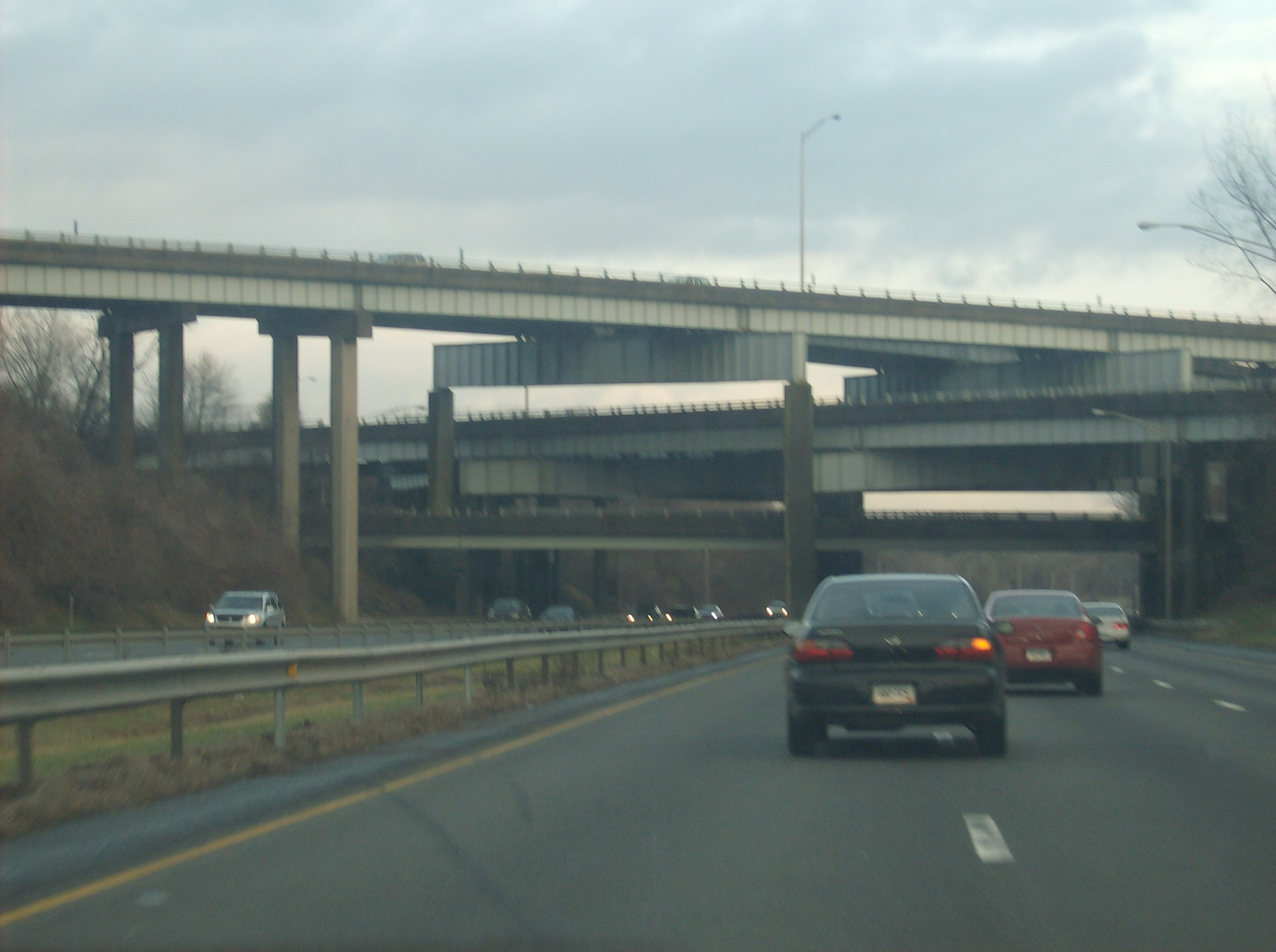 Interstate 84 and Route 9 overlapping in a half-used stack interchange. Initially, the stack interchange was supposed to carry traffic to the extended I-291 (proposed Hartford Bypass), taken from I-84.